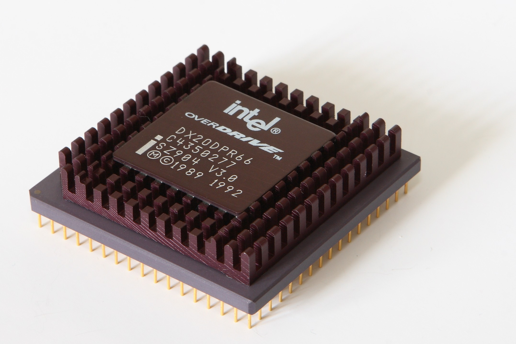 Intel 486 DX2 Overdrive 66Mhz Camera data Camera Canon EOS 30D Lens Canon EF 24-70 mm 2.8 L USM Focal length 70 mm Aperture f/19 Exposure time 15 s Sensivity ISO 100 Image Editing Programs Canon Digital Photo Professional